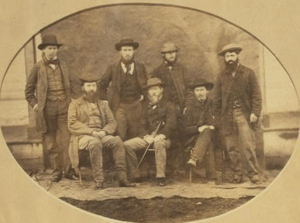 Summary: Photograph shows group portrait of the officers of the Oregon Boundary Commission survey crew: Dr. Hilary Bauerman, geologist, Capt. Robert Wolseley Haig, R.A., Lt. Samuel Anderson, R.E, Capt. Charles John Darrah, R.E., Dr. David Lyall, Col. John Summerfield Hawkins, R.E., and Lt. Charles William Wilson, R.E.